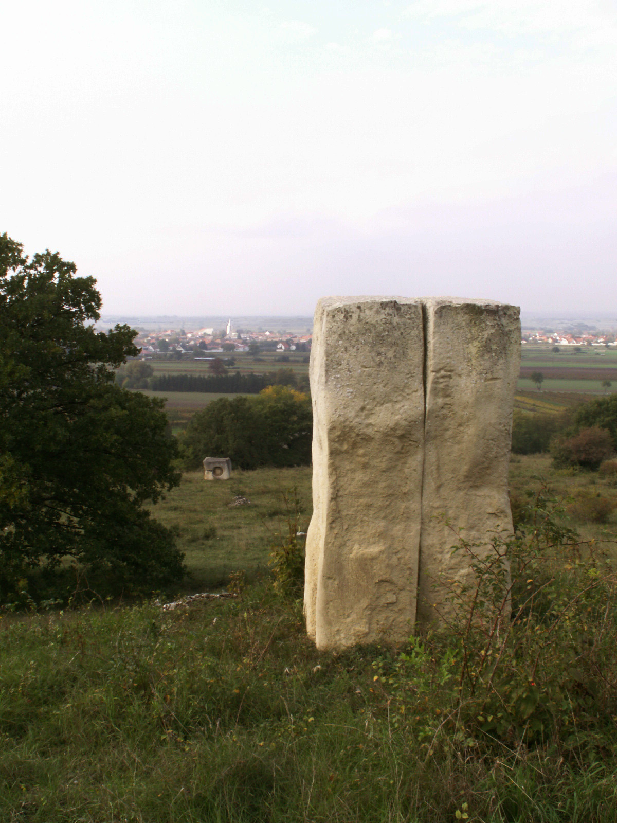 „Symposion Europäischer Bildhauer“, St.Margarethen – Burgenland/Austria, Olbram Zoubek, 1966